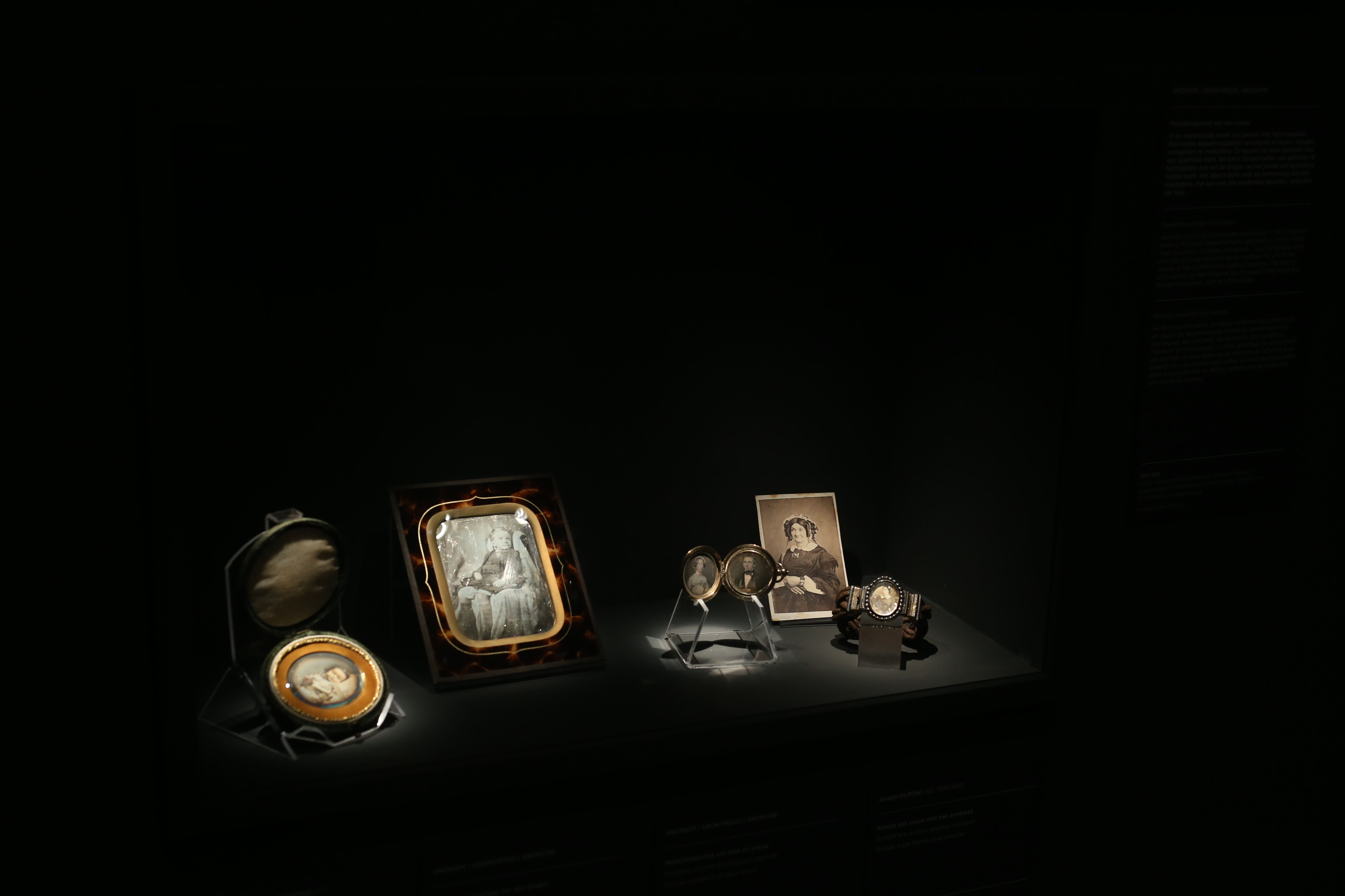 Fotomuseum Antwerp, Belgium This is a file created at the museum: FOMU Photo Museum in Antwerp